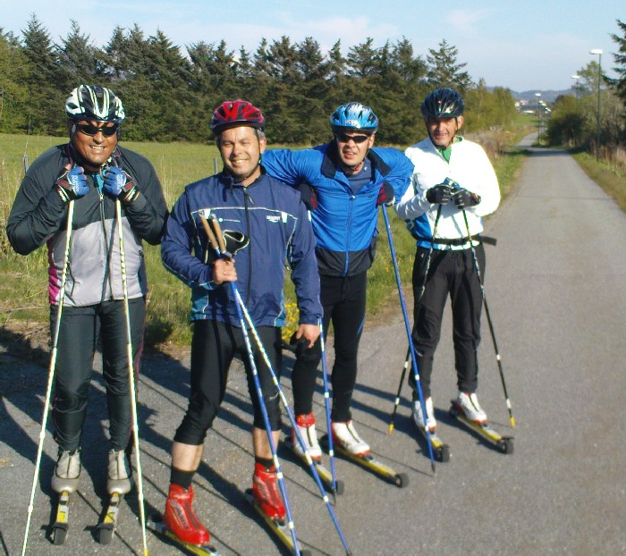 Training session with Hafrsfjord Rulleskigruppe